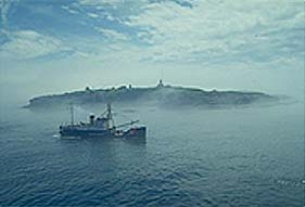 U.S. Coast Guard Cutter (USCGC) Fir (WLM 212) off Cape Flattery lighthouse. USCGC Fir is now on the U.S. National Register of Historic Places (ID #92001880) and is moored on the Seattle, Washington waterfront at 1519 Alaskan Way South.